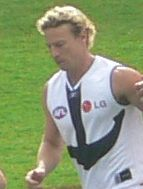 Shaun McManus, Australian rules footballer